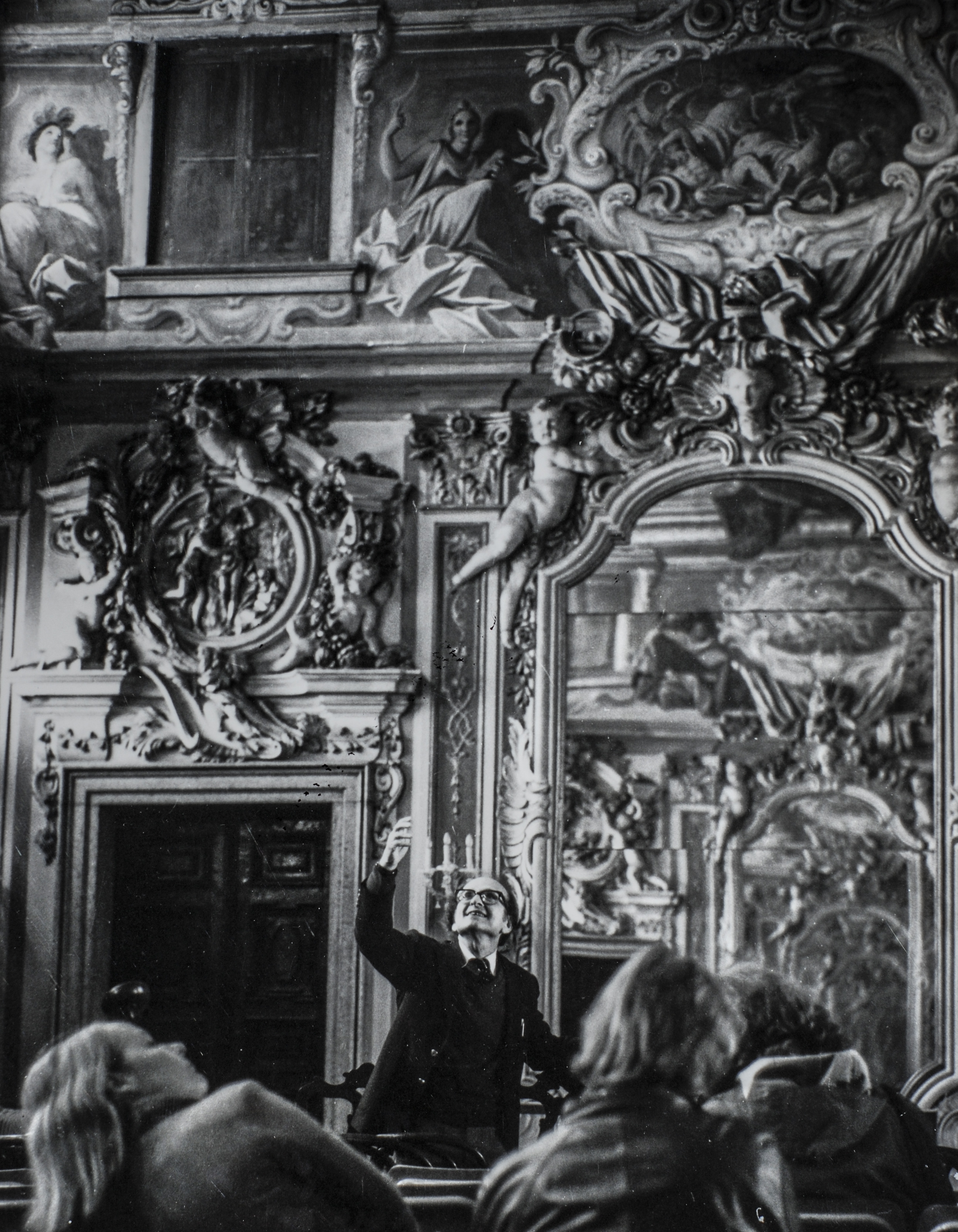 Abraham giving a lecture to University of British Columbia architecture students visiting Venice.